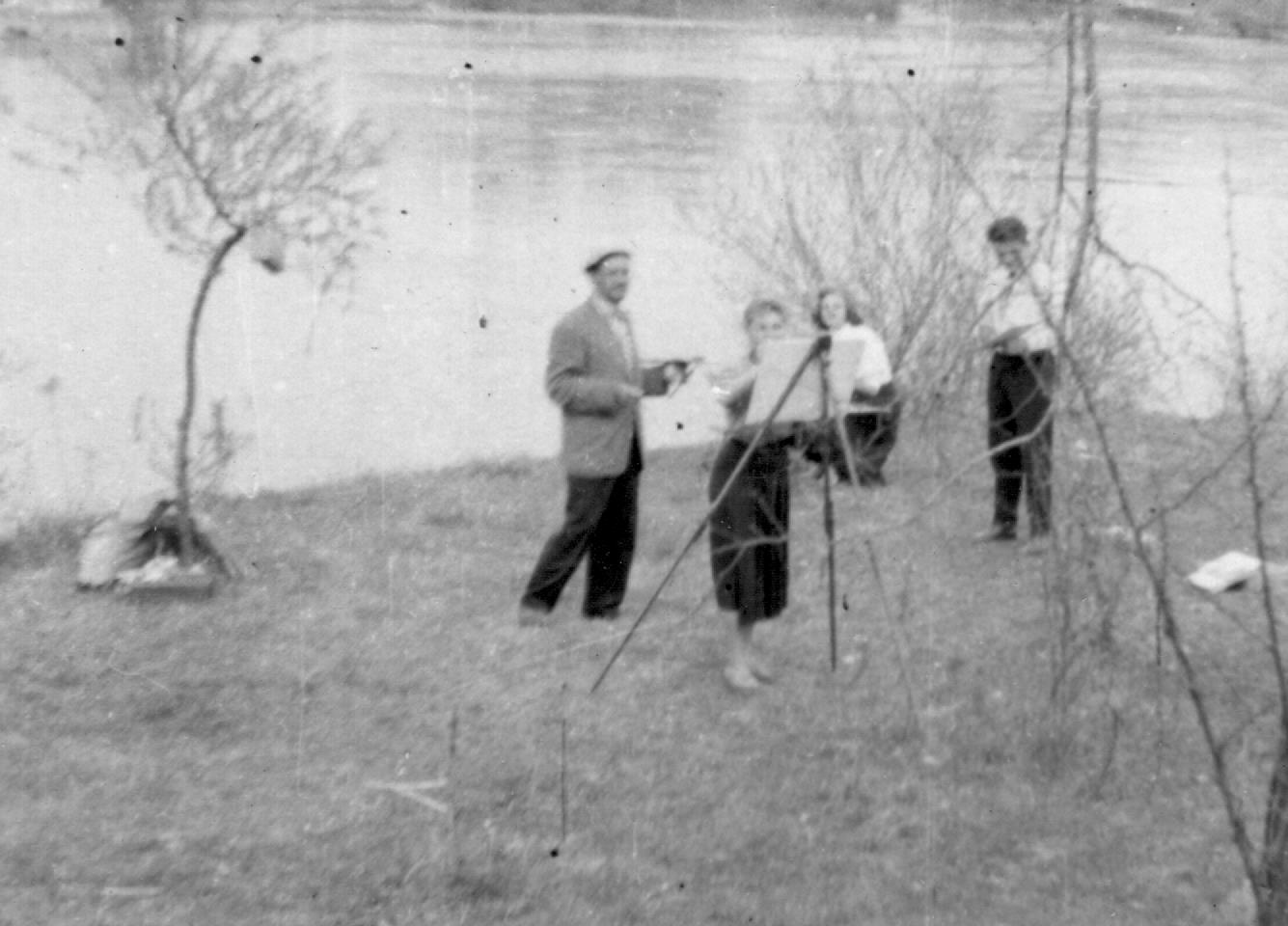 Prof. Ferdo Ladika, Anica Vranković and Heda Rušec - painting lesson en plein air on the riverbank of Drava, Varaždin